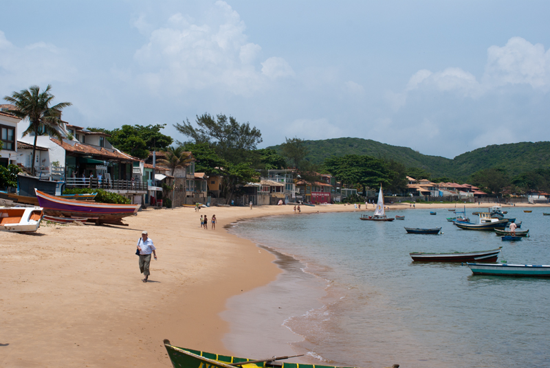 Port of Buzios